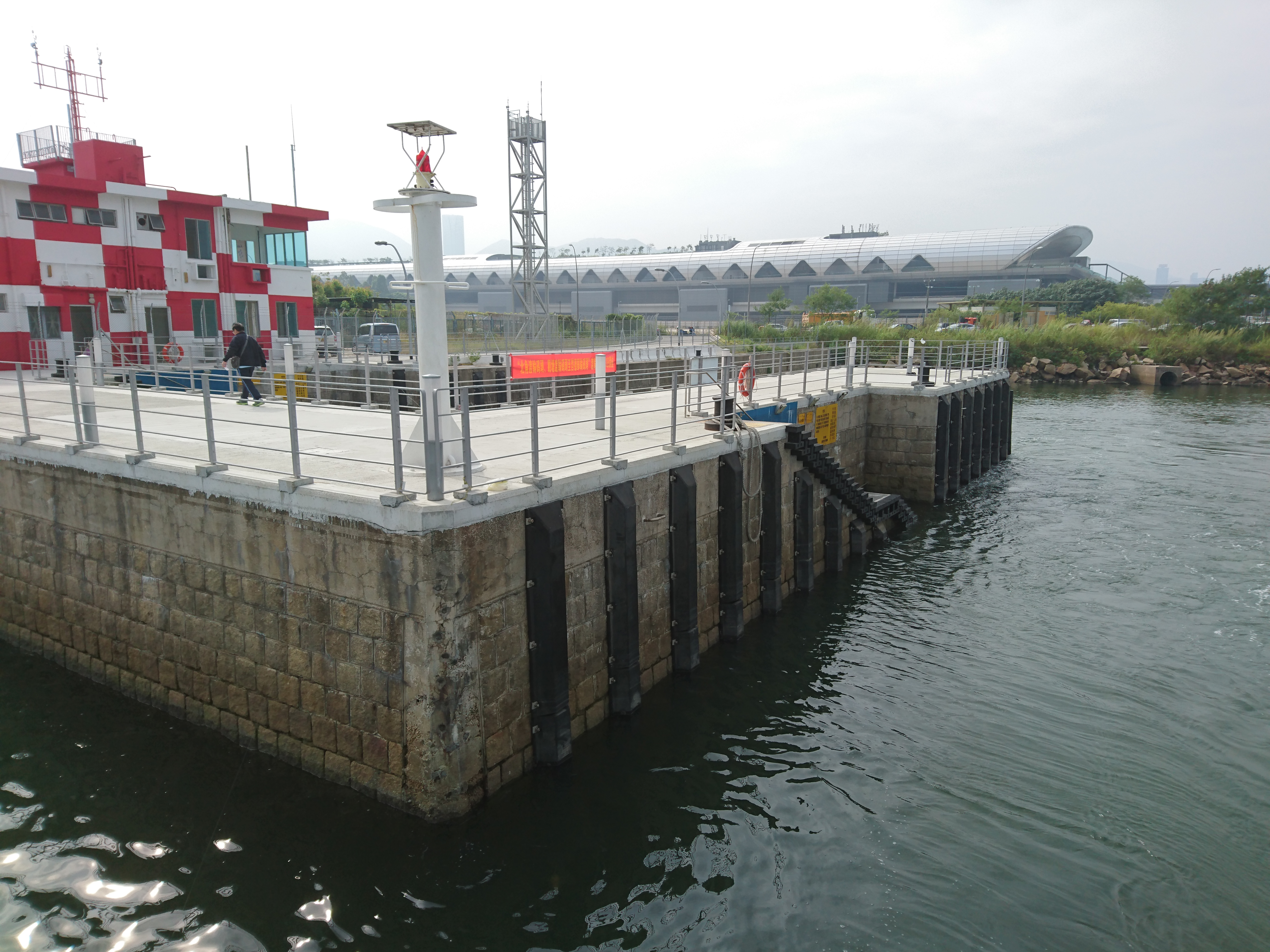 Kai Tak Ferry Pier